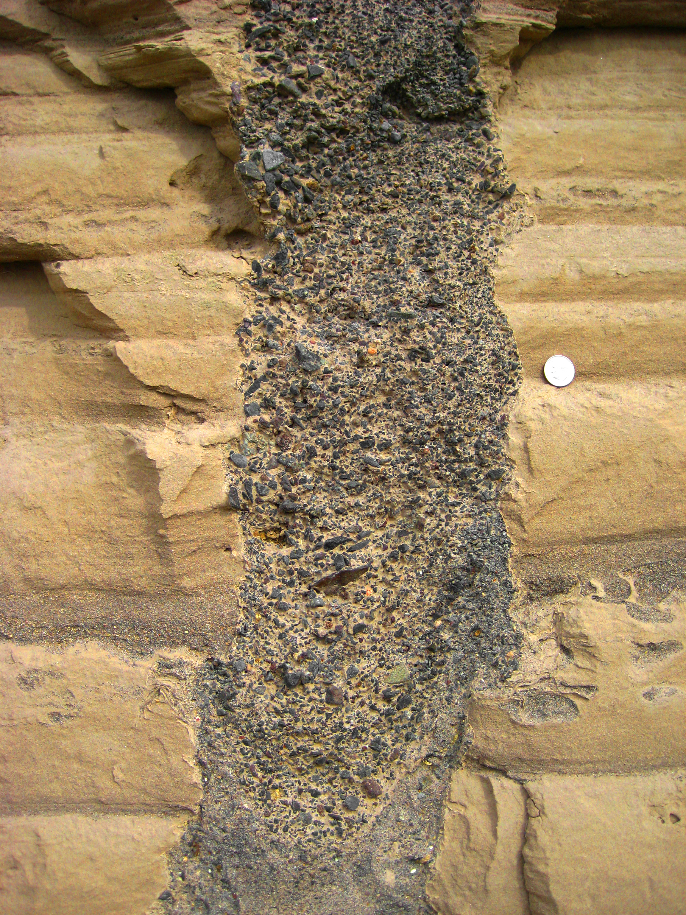 Coarse sand dike Starbuck